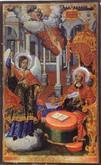 Shteryu Georgiev's Icon